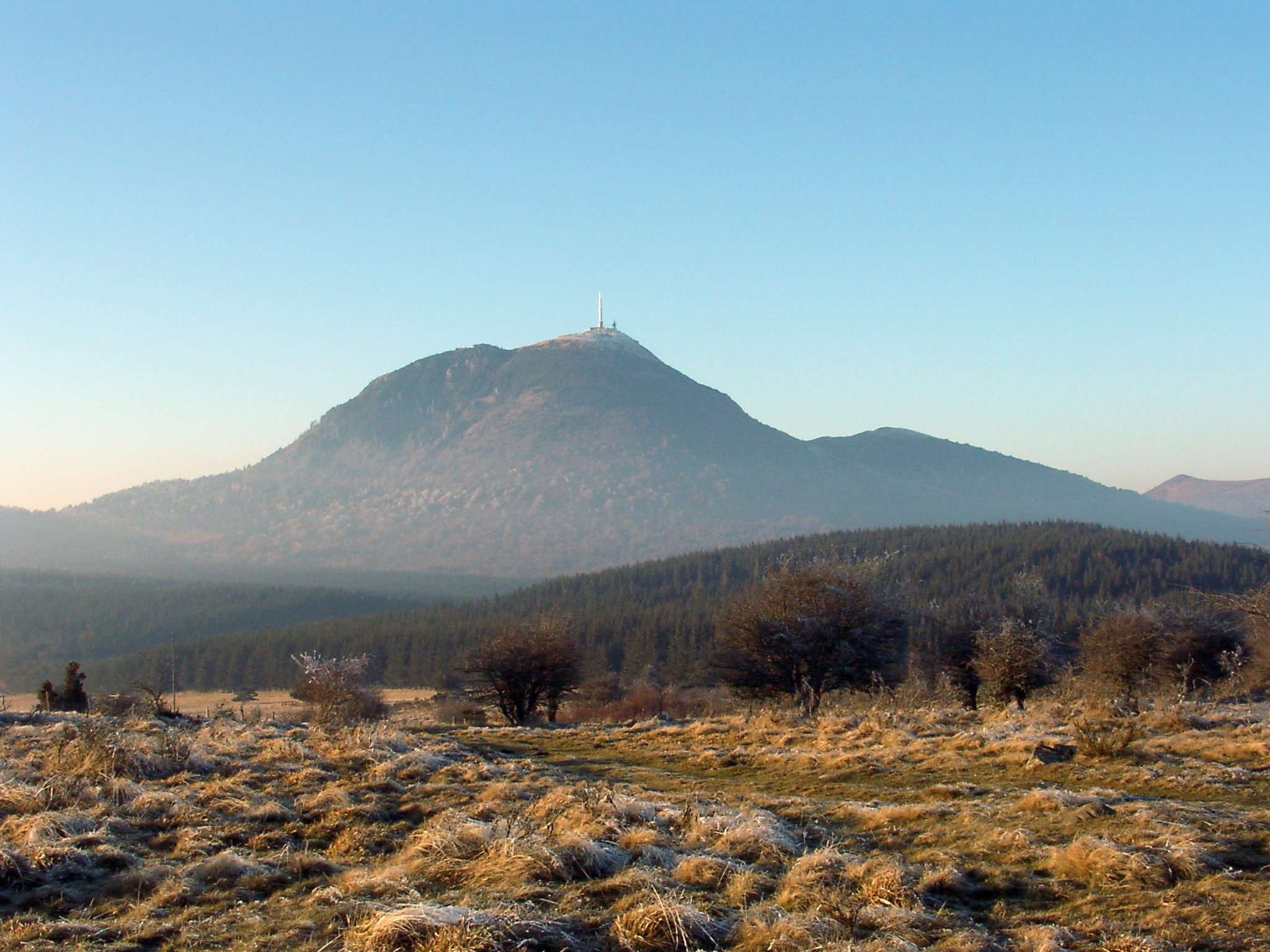 Autumn view of the puy de Dôme (Puy de Dôme, Auvergne, France). Taken from Laschamps. Camera : Toshiba PDRM70.